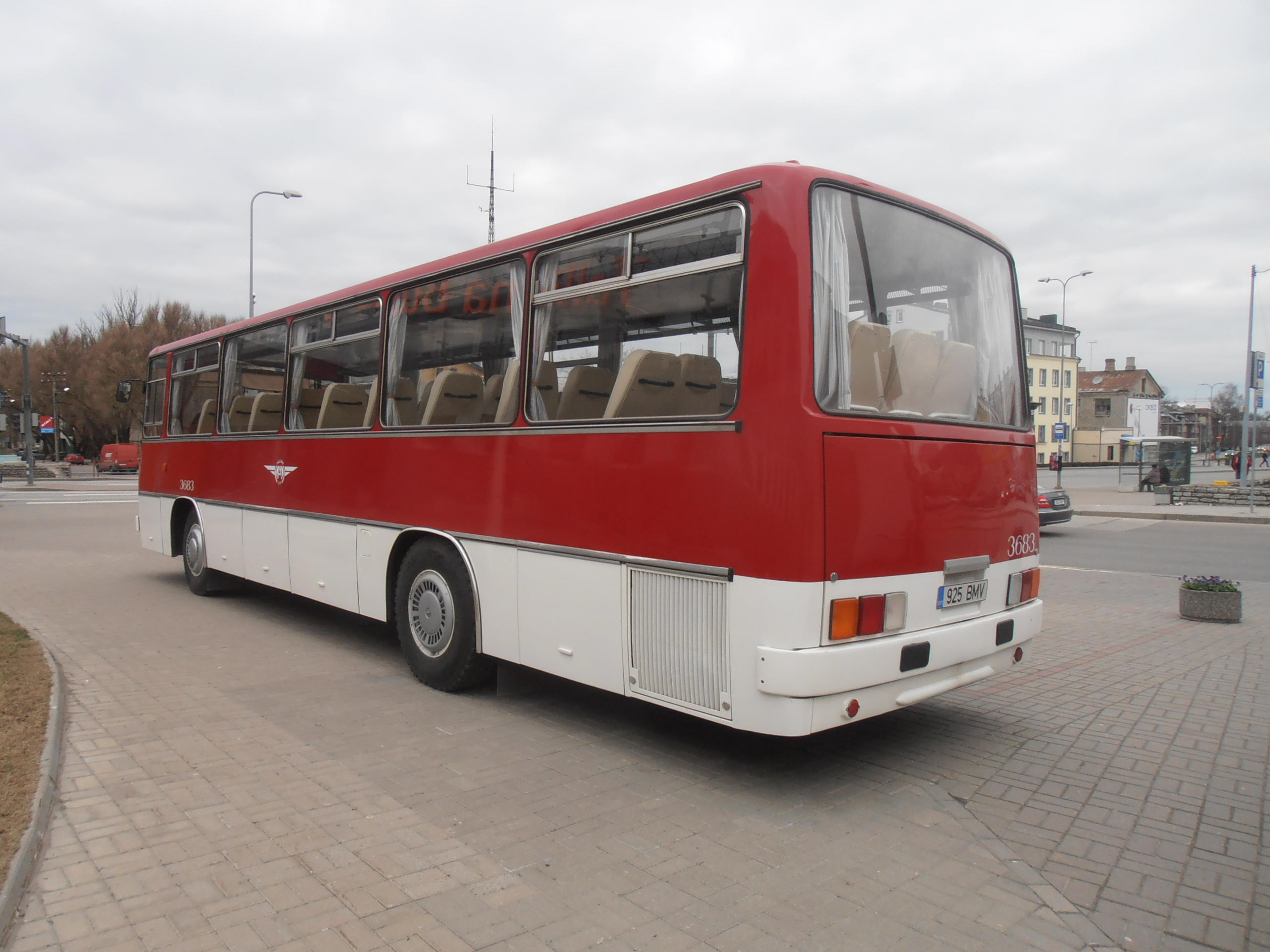 Ikarus 255 Bus 3683 EST Number 925 BMV rear view Tallinna Bussijaam Tallinn 18 April 2015